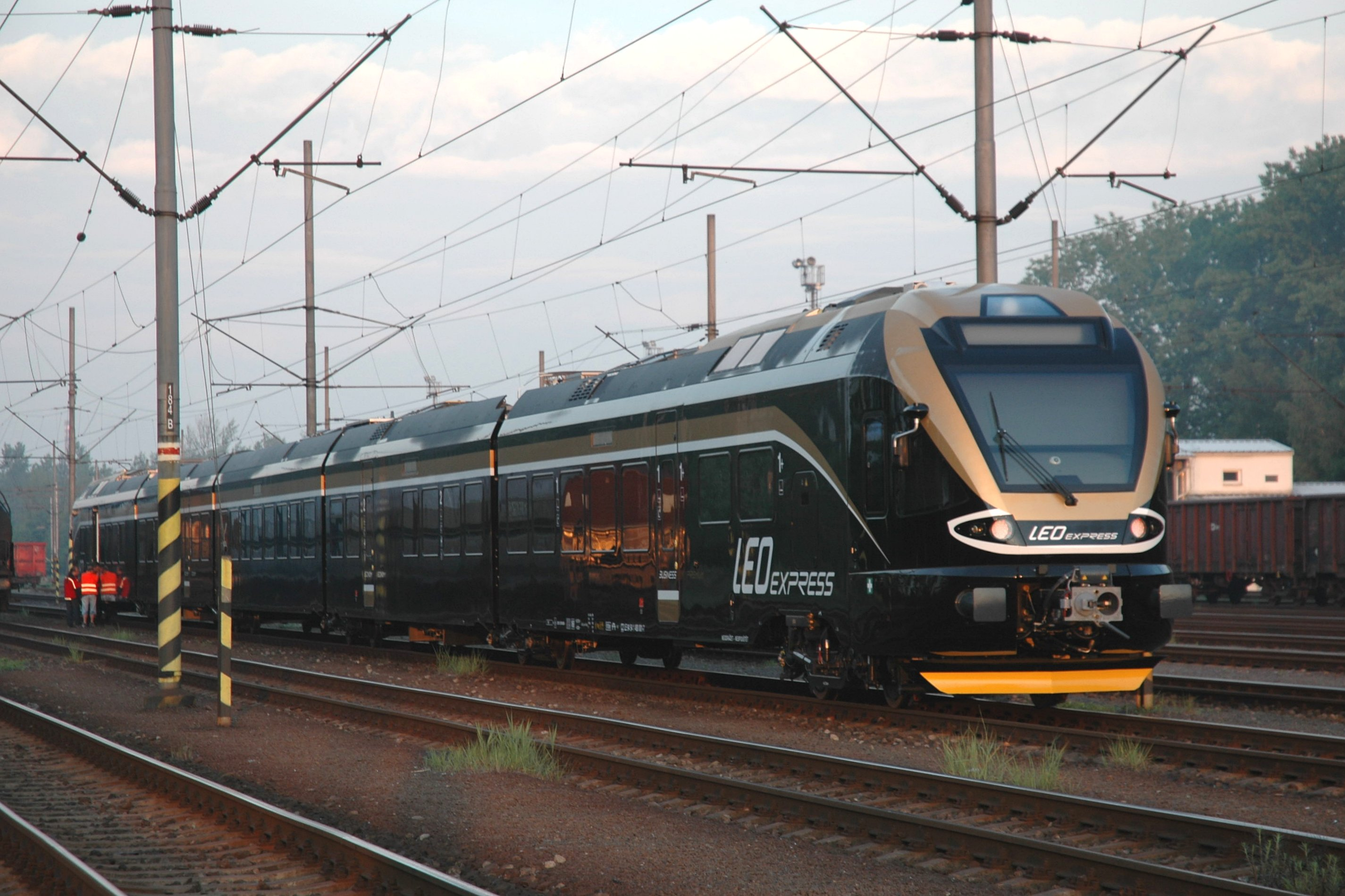 EMU 480.001 of Leo Express railway operator; Bohumín-Vrbice station, Czech Republic